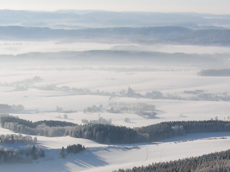 View from the Ruprechticky Špičák to Pomeznice and Vižňov (parts of Meziměstí town, Náchod District, Czech Republic)